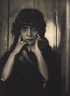 "Marchesa Casati", by Adolf de Meyer